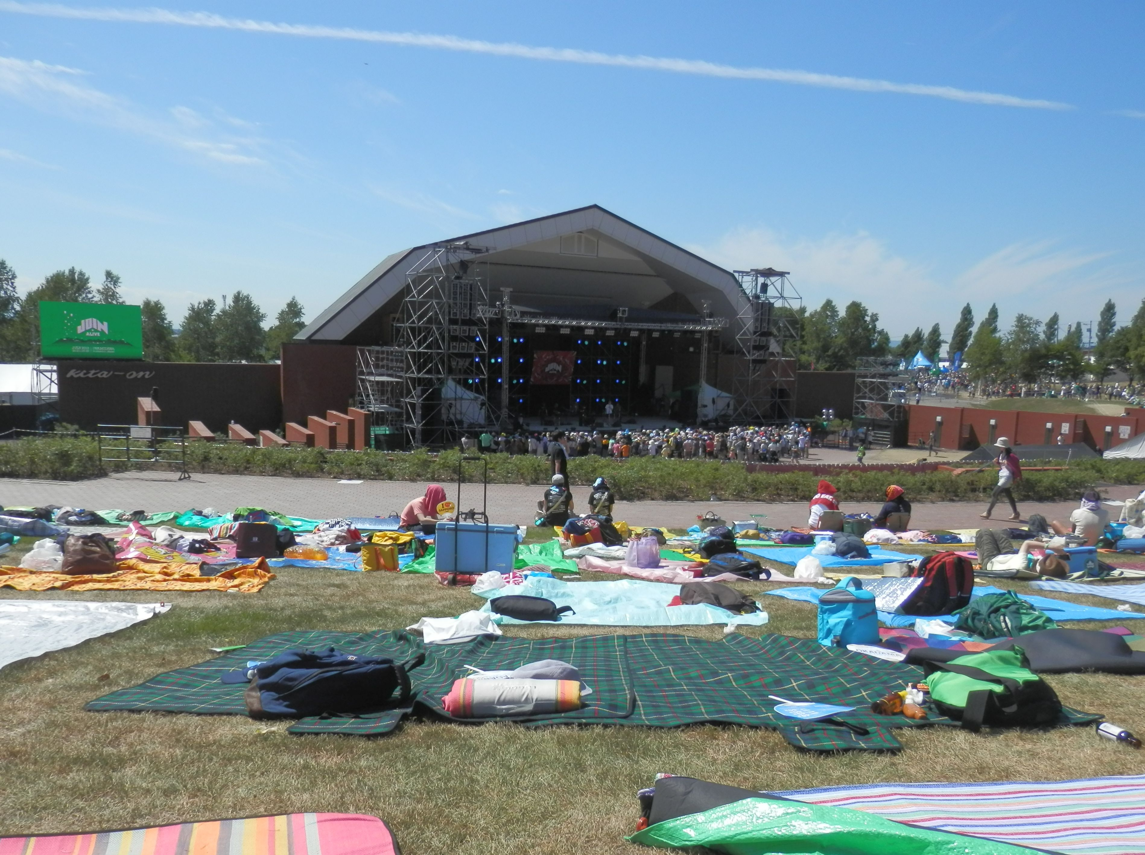 Rose Stage at Join Alive rock festival, held in Iwamizawa, Hokkaido.